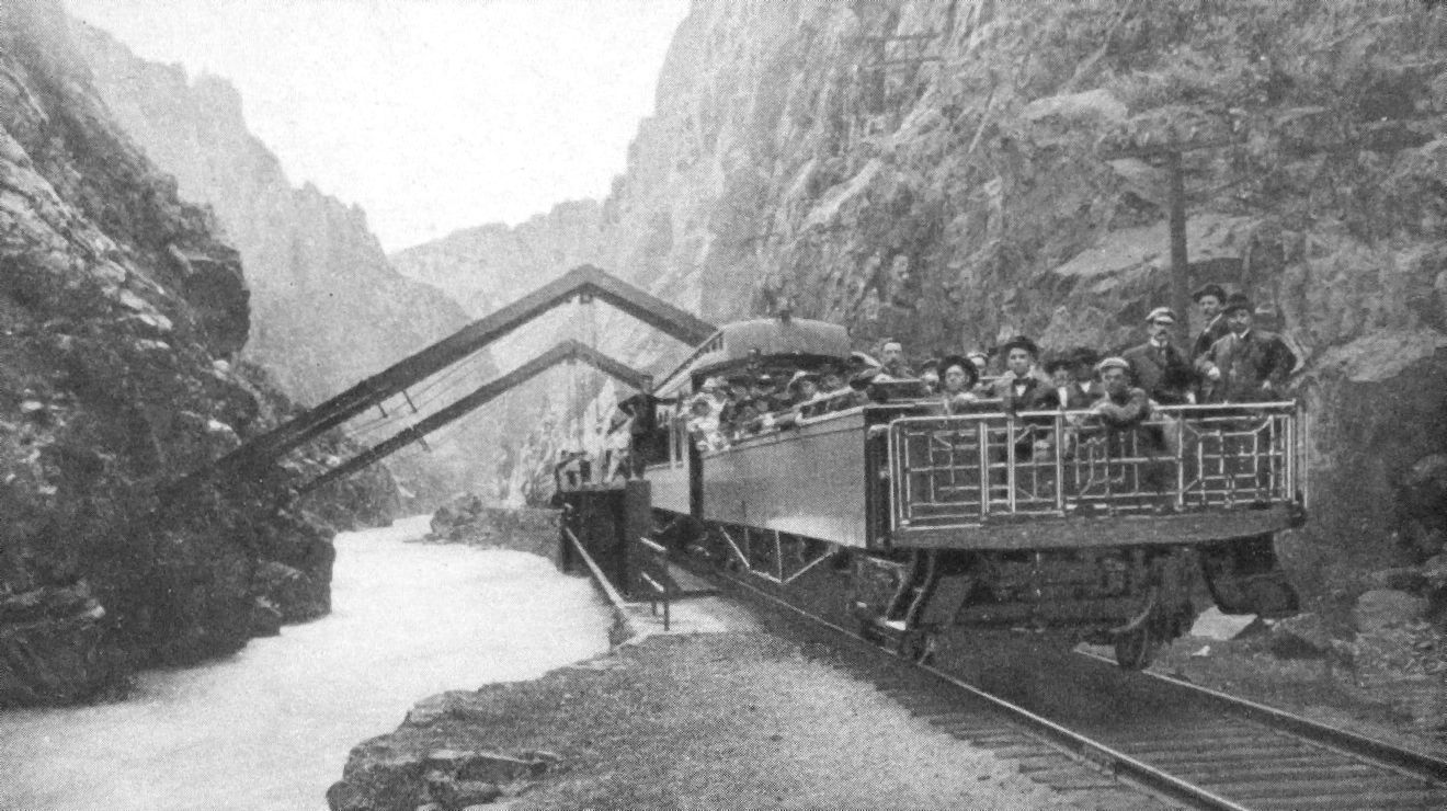 Postcard photo of the open observation cars operated by the Denver and Rio Grande railroad through the Royal Gorge and also through the Black Canon of the Gunnison circa 1917. Note that unlike some lines who operated the open observation cars for their "tourist class" passengers while "first class" riders could use the enclosed observation car, the Rio Grande termed this an "extra" and charged a quarter per person to ride in the open car.